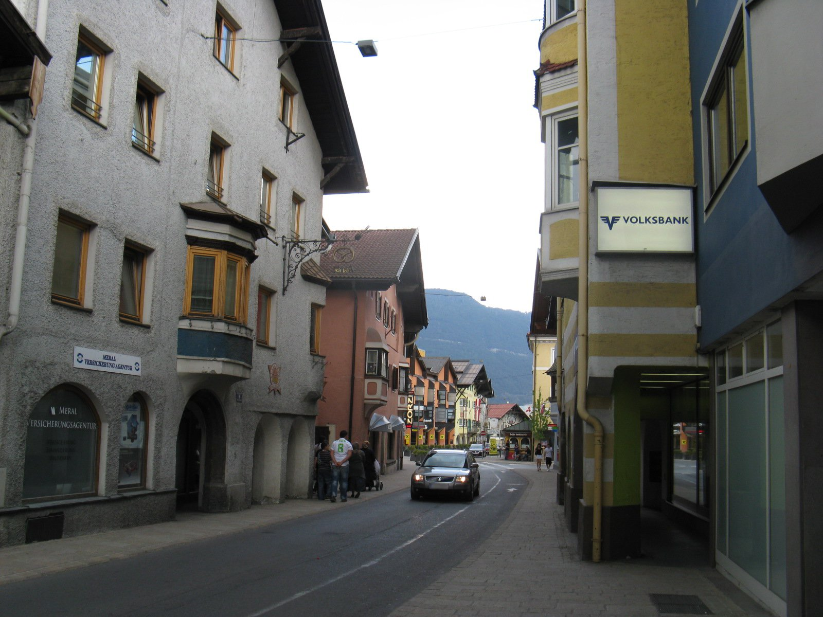 Telfs, Obermarkt street